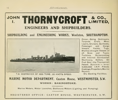 Half-page advertisement for Thornycroft shipbuilders in Brassey's Naval Annual 1915.